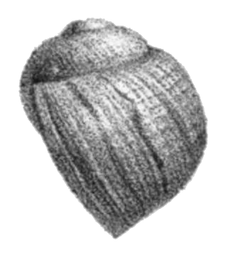 Drawing of a lateral view of the shell of Amuropaludina chloantha.